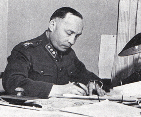 Finnish lieutenant general & main strategic planner Aksel Fredrik Airo (as it shows his rank was colonel at the time the picture was taken) in his office in headquarters of the Finnish Defence Forces.